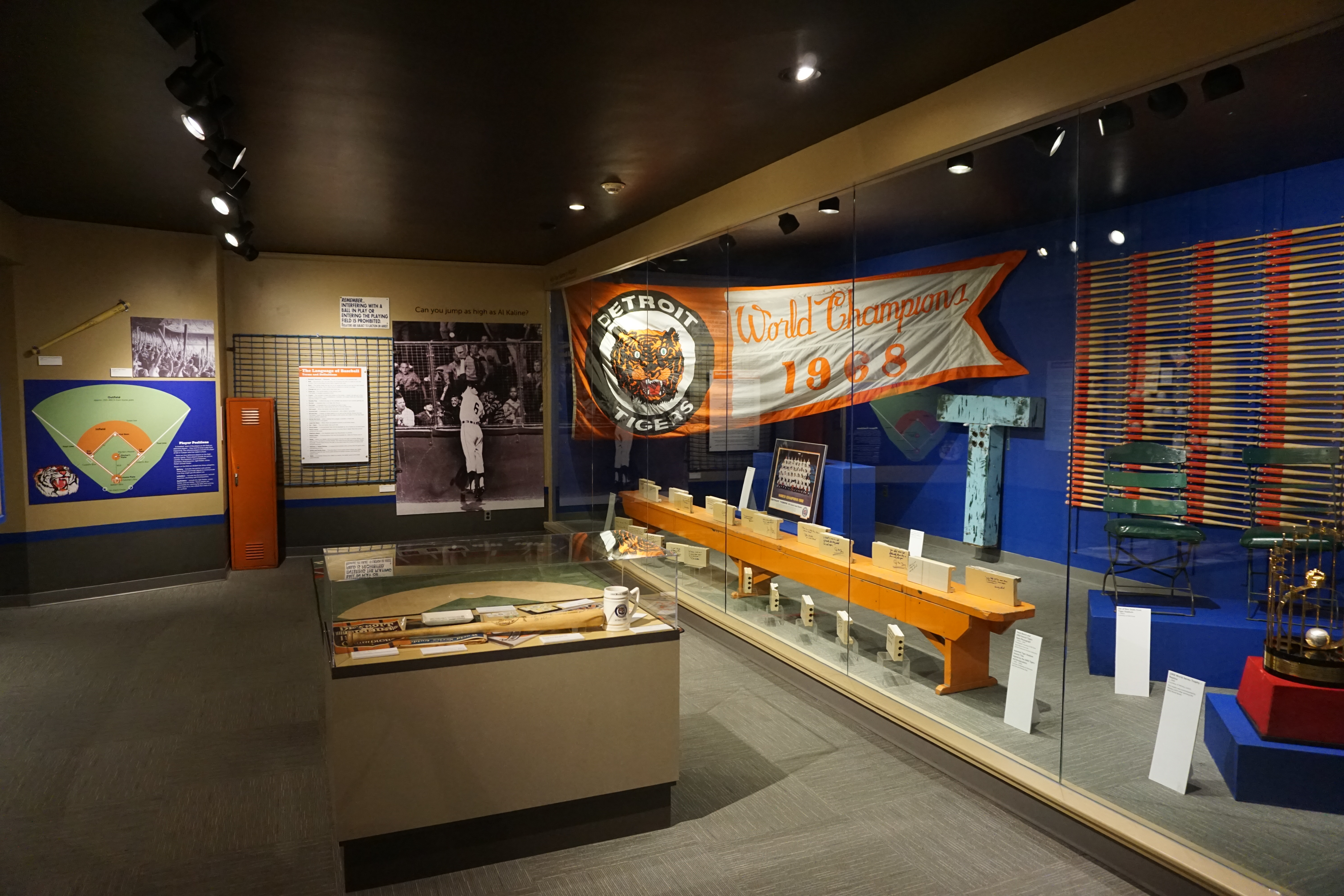 The Year of the Tiger: 1968 exhibit at the Detroit Historical Museum in Detroit, Michigan (United States).